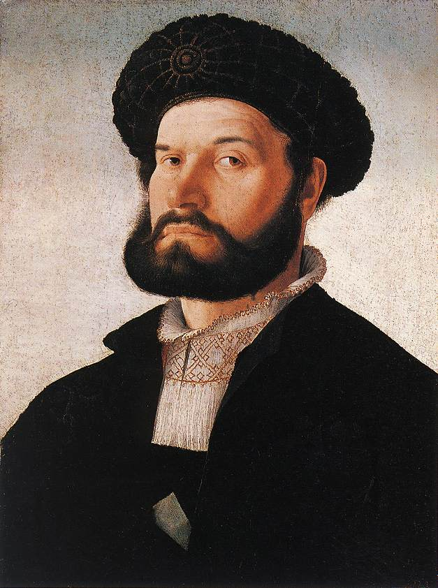 Portrait of a Venetian Man